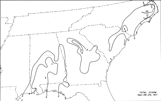 Map of rainfall totals associated with the 1917 Nueva Gerona hurricane in the United States